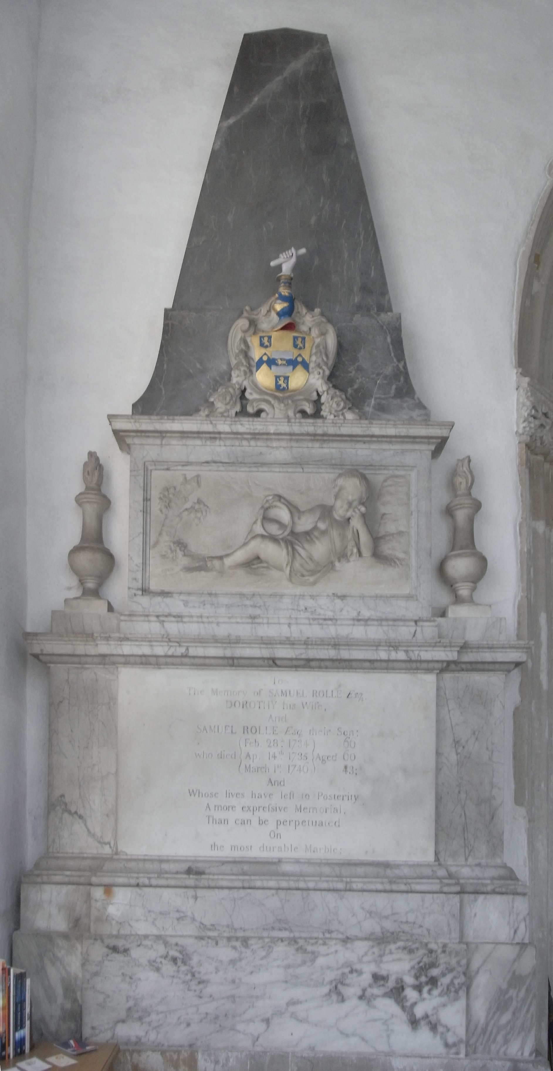 Rolle mural monument, Chittlehampton Church, Devon, on the west wall of the south transept, inscribed as follows: "To the memory of Samuel Rolle, Esq., Dorothy his wife and Samuel Rolle Esq., their son, who died: Feb. 28th 1734 aged 66; Ap. 14th 1735 aged 60; March 1st 1746 aged 43. And whose lives have left to posterity a more expressive memorial than can be perpetuated on the most durable marble". On the monument is shown an escutcheon with the arms of Rolle in the centre of which is an escutcheon of pretence with the arms of Lovering: Argent, on a fesse wavy azure a lion passant or